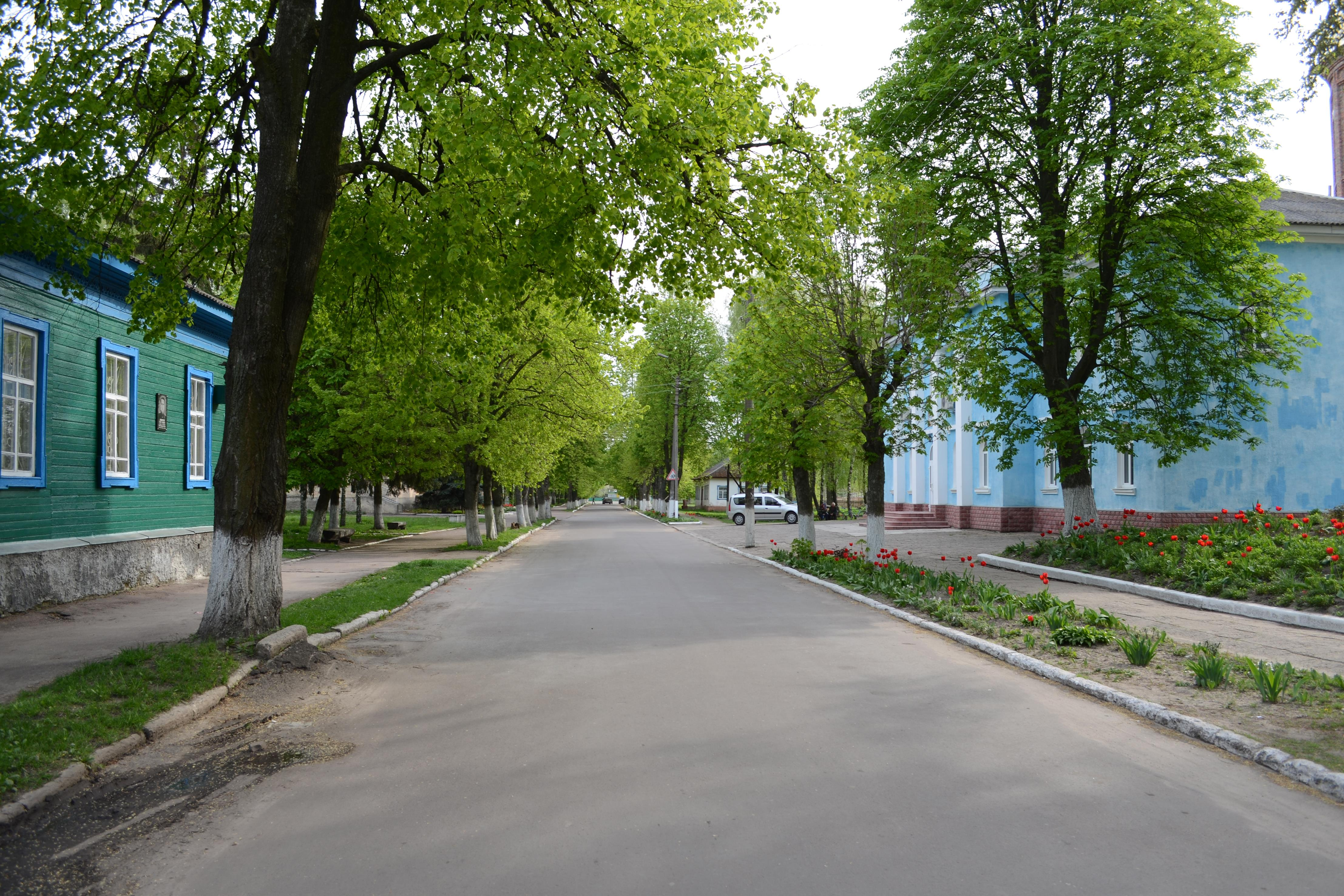 Berezna, Mena Raion, Chernihiv Oblast, Ukraine